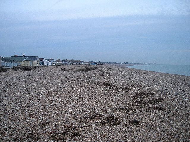 Pagham Beach. Looking east with the beachside houses of the Pagham Beach Estate to the left. Bognor can just be made out in the distance.